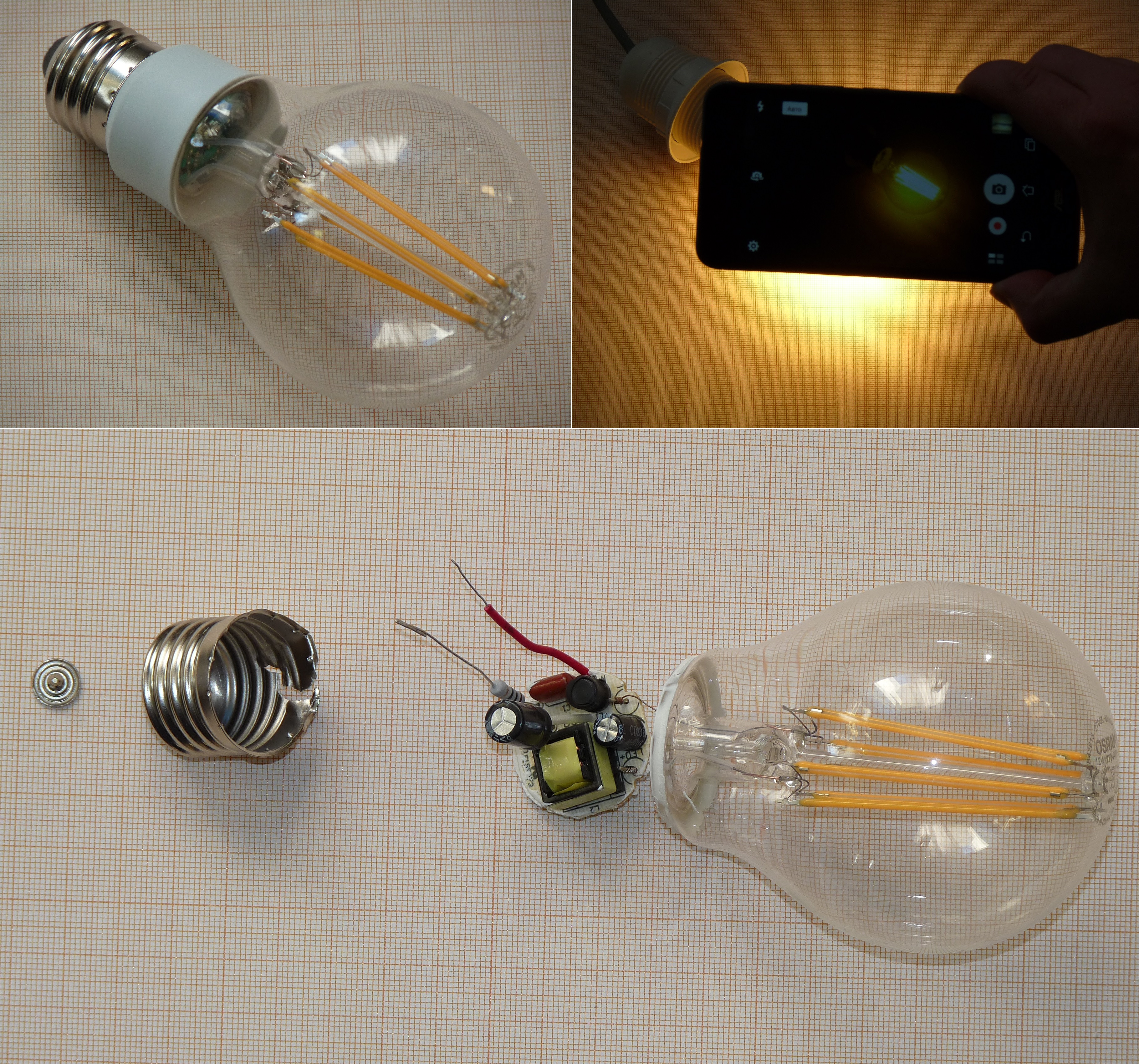 Disassembled COG-LED light bulb, 12W